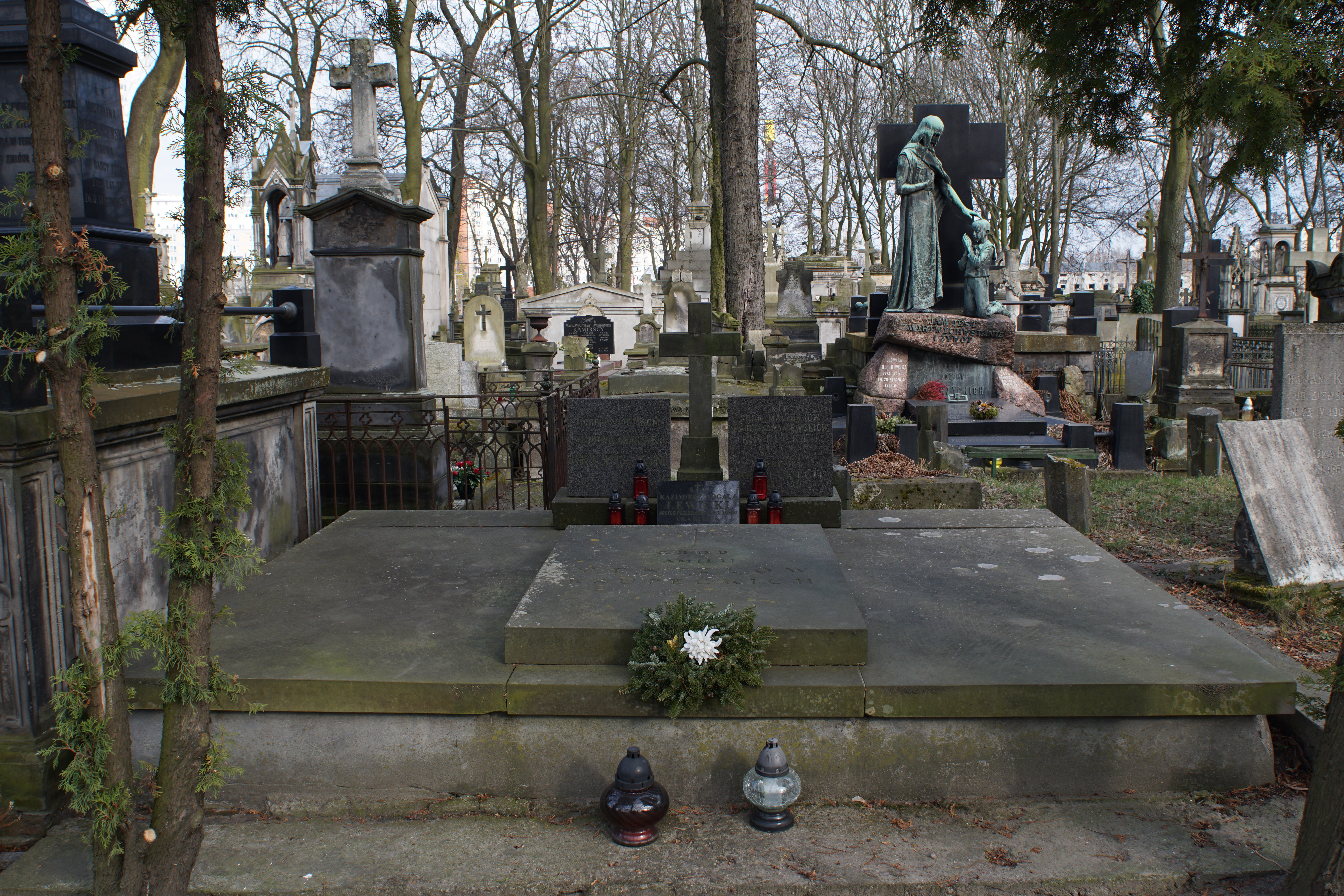 The grave of Kazimierz Lewicki at the Powązki Cemetery (section 1, row 6, grave 10, 11, 12)